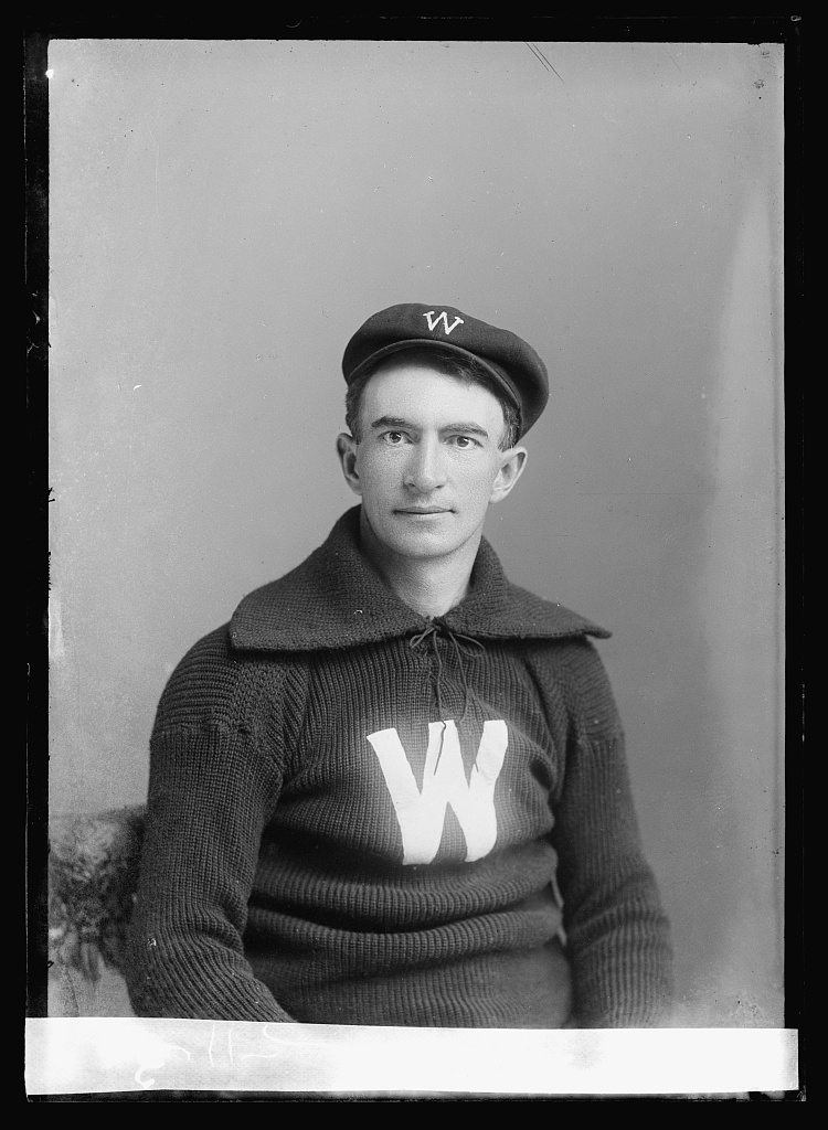 Parson Nicholson in Washington Senators uniform taken at C. M. Bell Studio